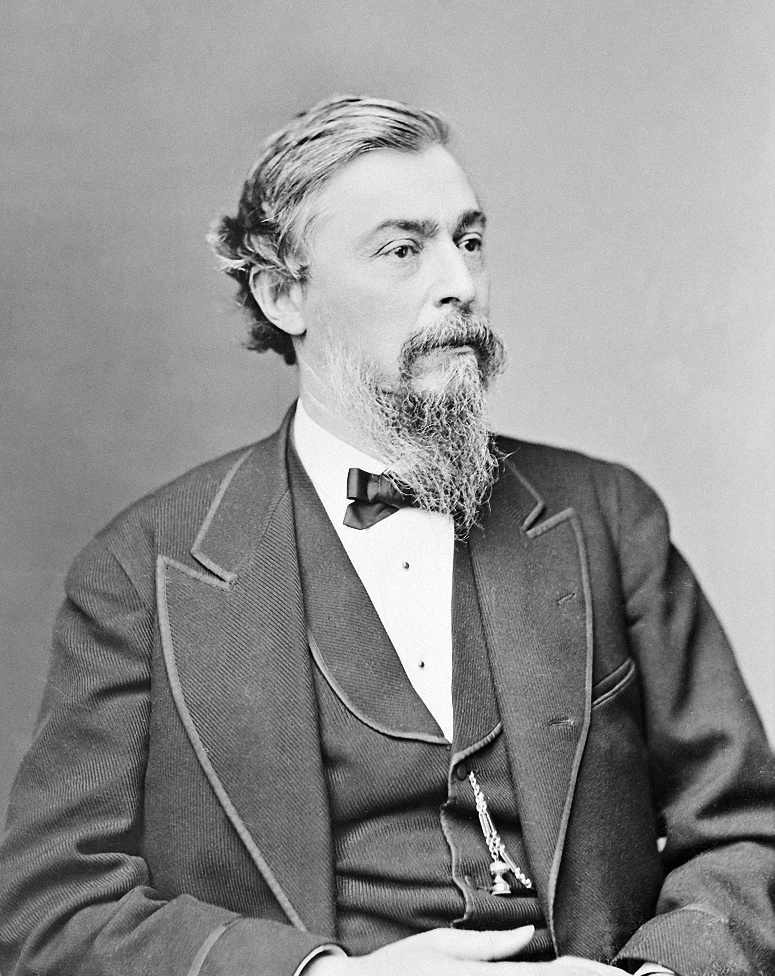 Thomas C. Durant. (Original title is incorrect.)